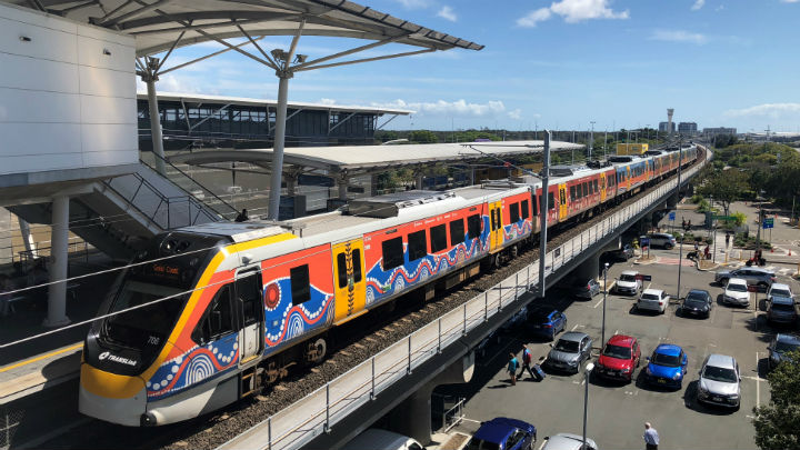 Queensland Rail NGR Train Indigenous Livery